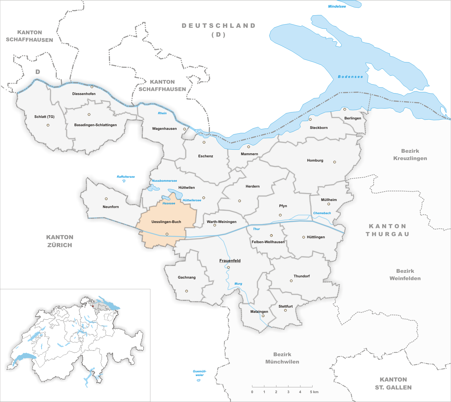 Municipality Uesslingen-Buch